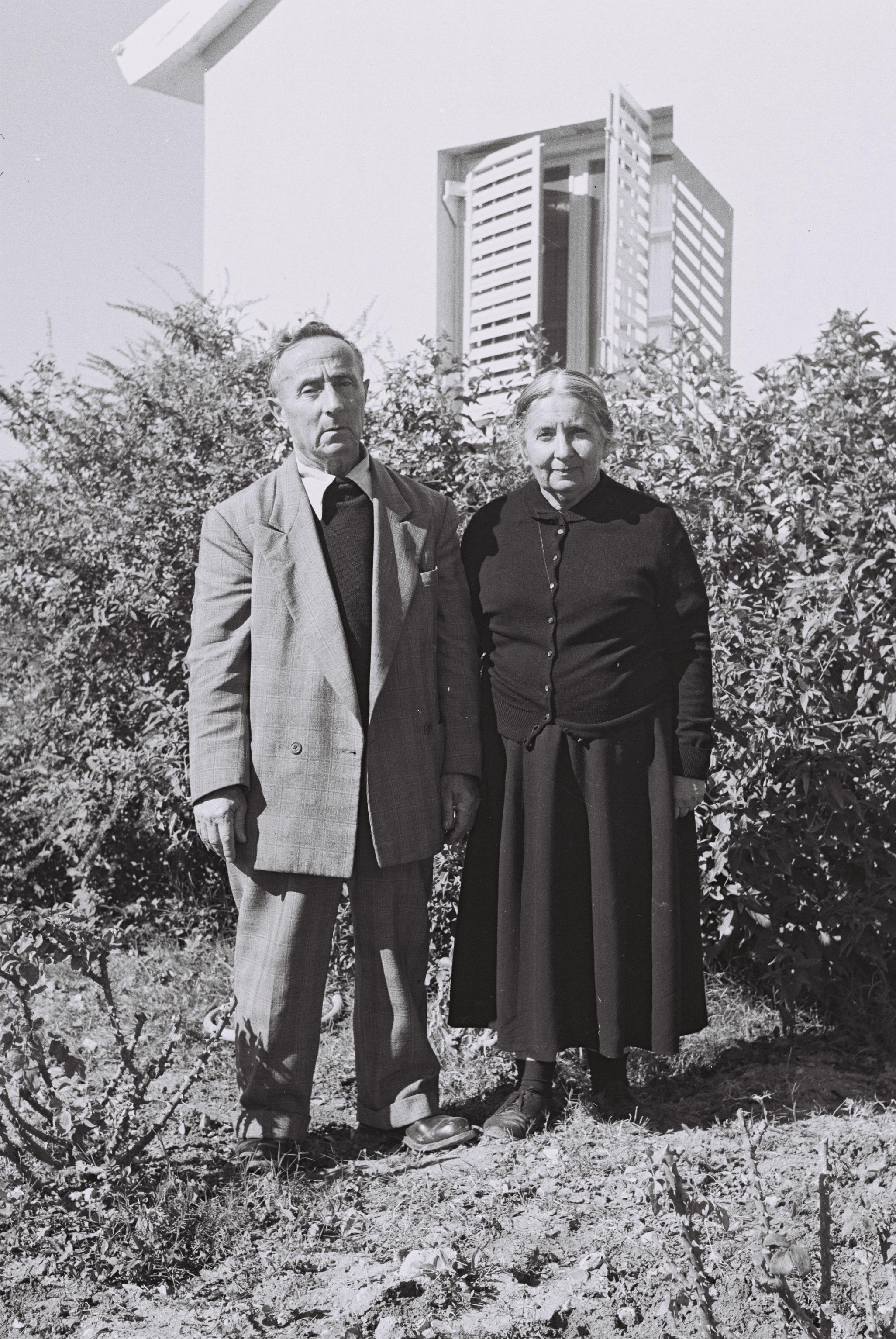 RIVKA AND MORDECHAI GUBER, NEAR THEIR HOME IN IMMIGRANT SETTLEMENT "NEHORA".